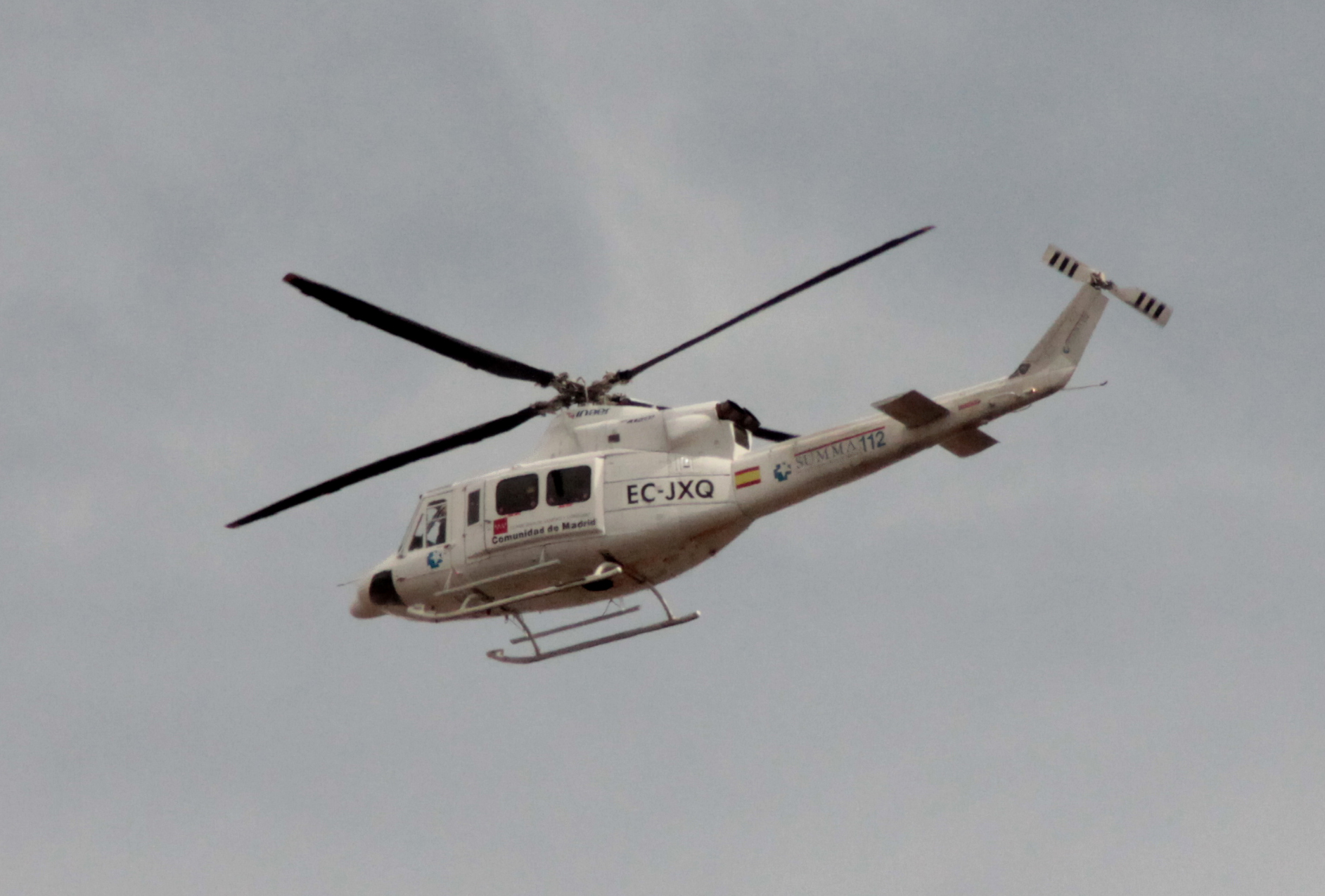 A Bell 142 (Inaer) helicopter of SUMMA 112 (EC-JXQ) in Madrid (Spain).